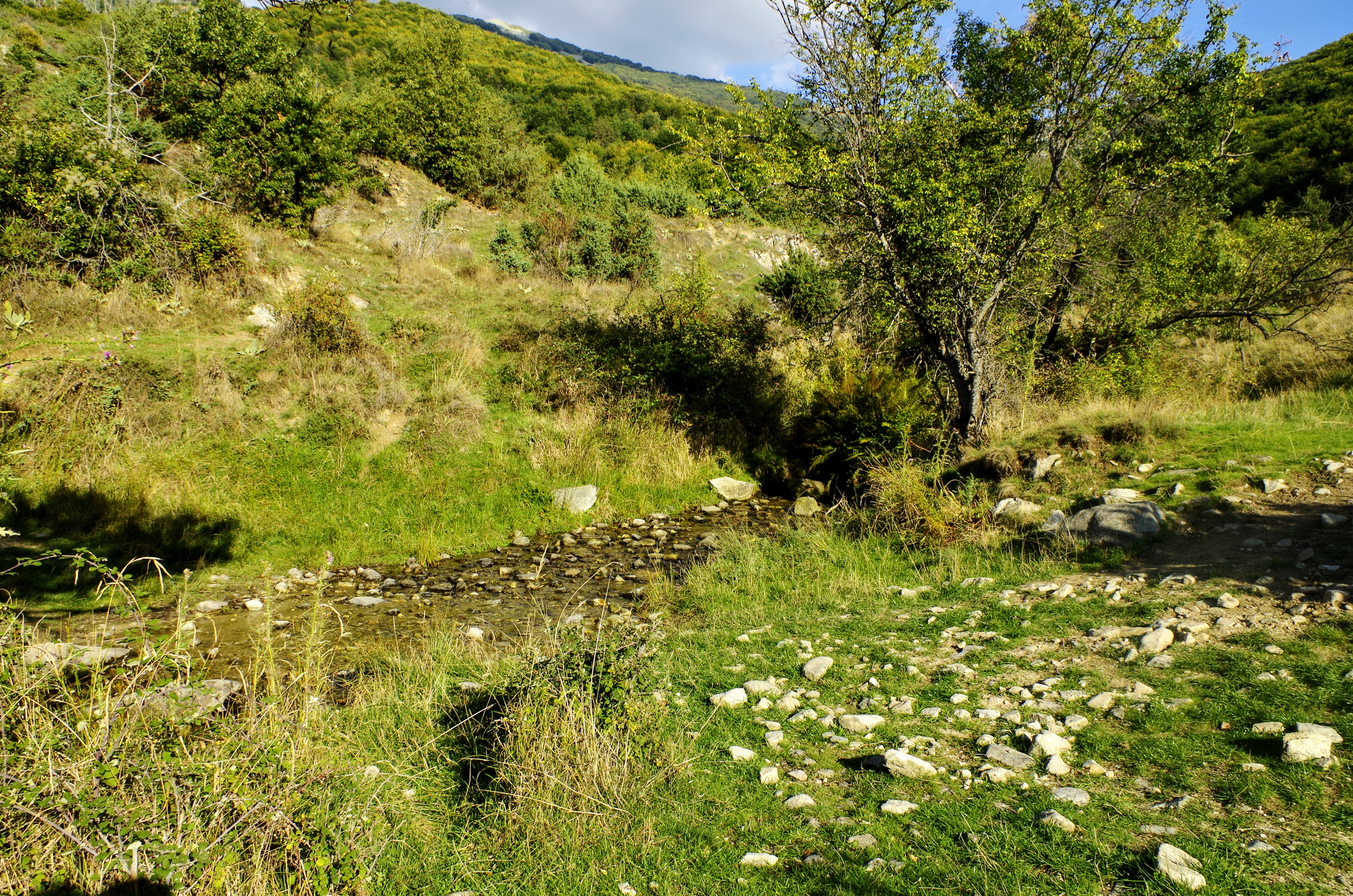 View of the river in the village Štrbovo